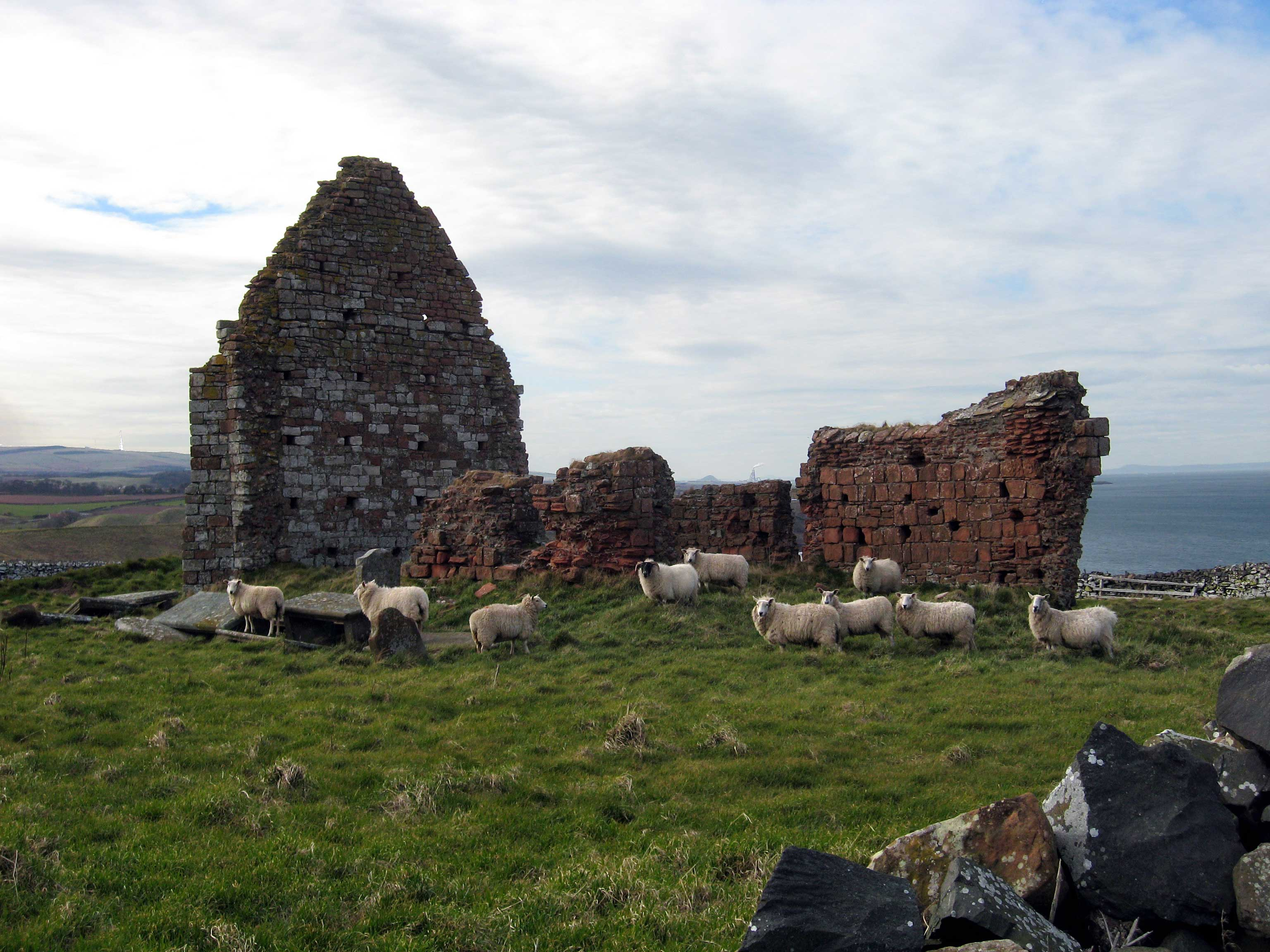 Ruins of St. Helen's chapel on the clifftop to the west of Siccar Point.